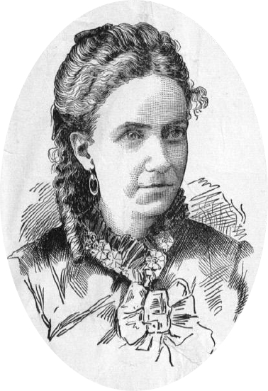 Maria del Pilar Maspons i Labrós Maria de Bell-lloch, in La Llumanera de Nova York magazine of March 1879